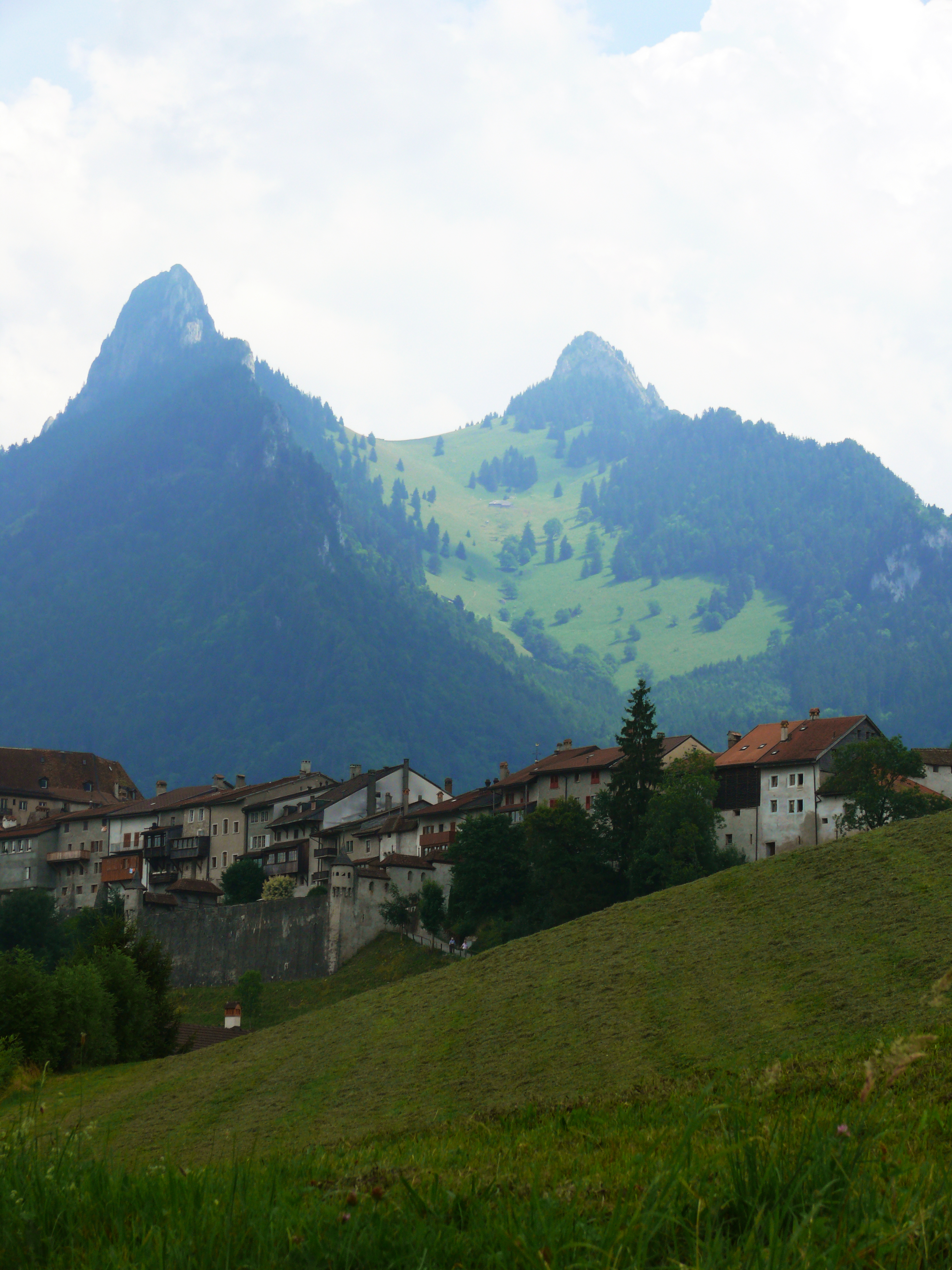 A view of the landscape of Gruyères, near the castle.